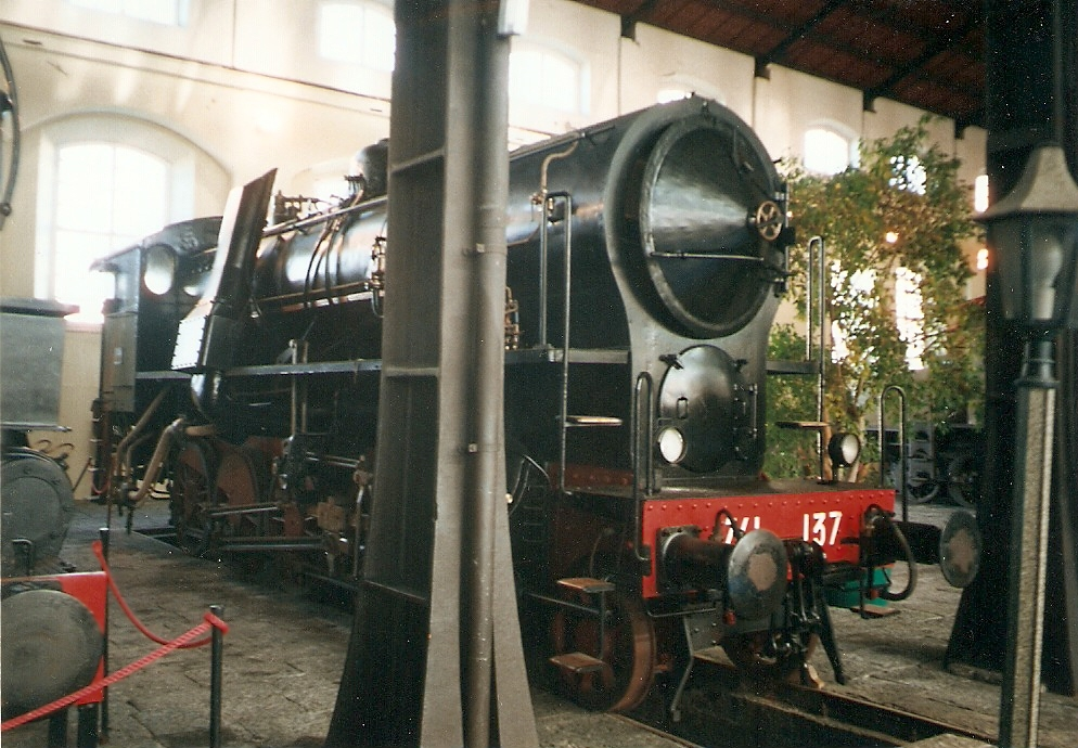 FS 741.137 in Pietrarsa railway museum with boiler Franco-Crosti